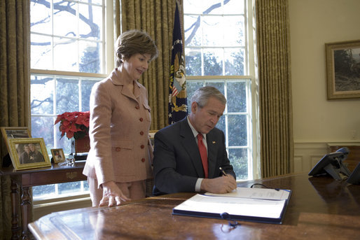 Laura Bush stands by President George W. Bush as he signs H.R. 6143, the Ryan White HIV/AIDS Treatment Modernization Act of 2006, in the Oval Office Tuesday, Dec. 19, 2006.